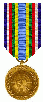 UN Medal for MINURCA the United Nations Verification Mission in the Central African Republic